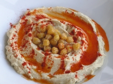 a plate of hummus with chickpeas, olive oil and paprika